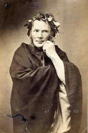 Richard Cockle Lucas by Richard Cockle Lucas Albumen carte-de-visite, circa 1858